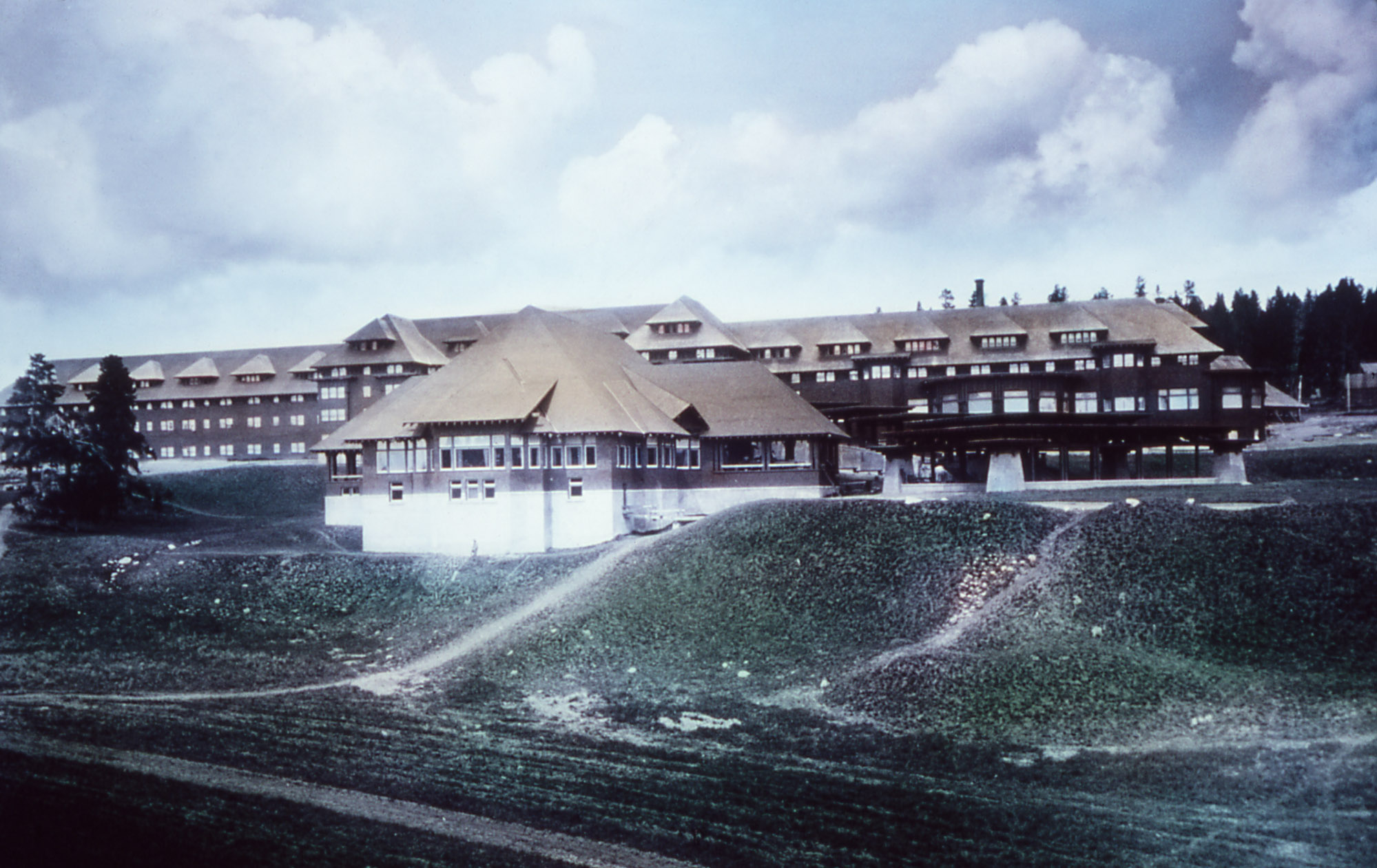 Canyon Hotel, Yellowstone National Park, from NPS slide collection